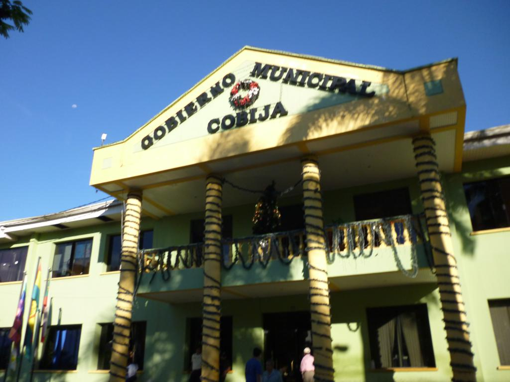 The muni building, Cobija, Bolivia